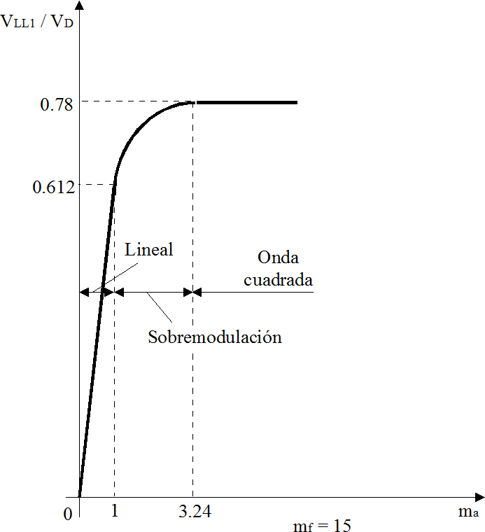 Grafica de las regiones